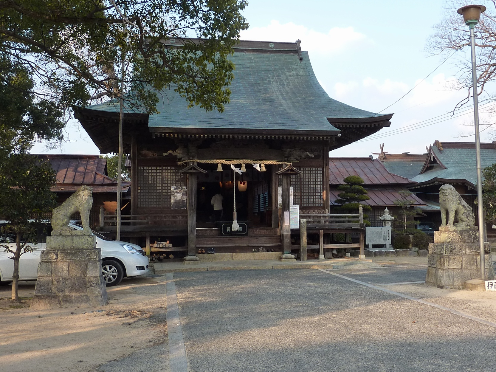 The Itone Shrine, is in Habu, Sanyo-Onoda City, Yamaguchi Prefecture, Japan.